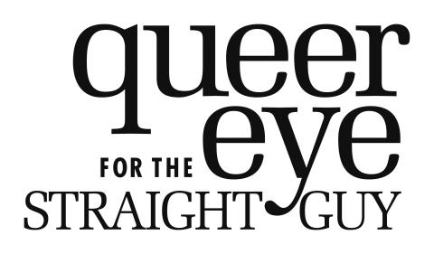 Queer Eye 1st season logo